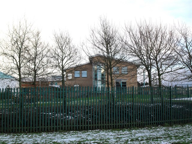 St. Patrick's High School, Keady At the corner of Madden Row and the Madden Road.